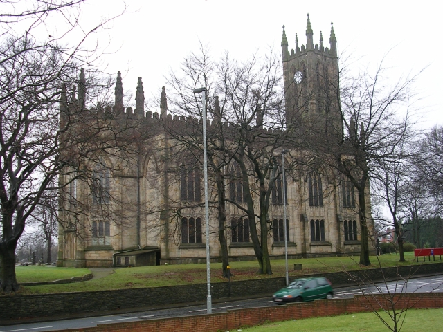 The church of All Saints at grid reference SD80300599 in Stand, Whitefield, Bury, Greater Manchester, England.